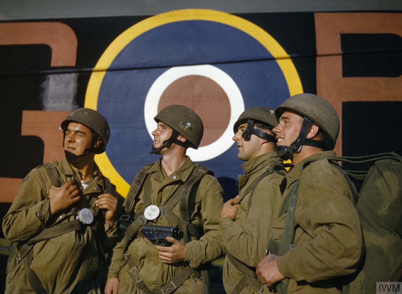 Paratroop Training in Netheravon, Britain, October 1942 Close-up of men of the Airborne Division adjusting their harness alongside Armstrong Whitworth Whitley `PX-G' of No 295 Squadron, Royal Air Force.